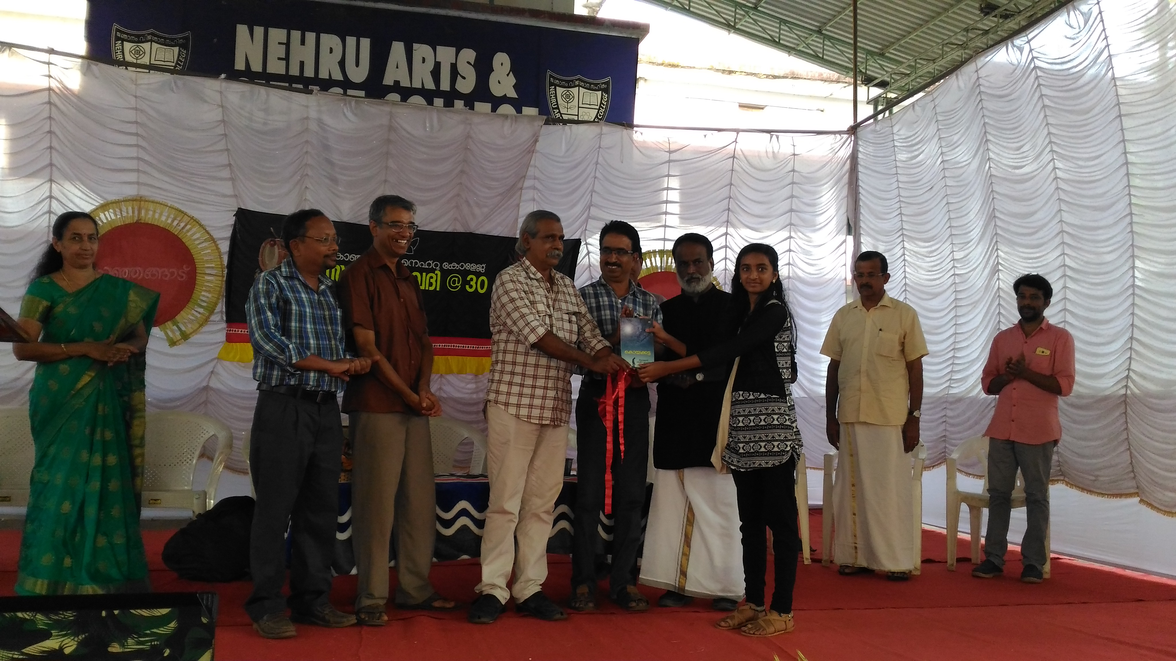 Koyakkatta publishing